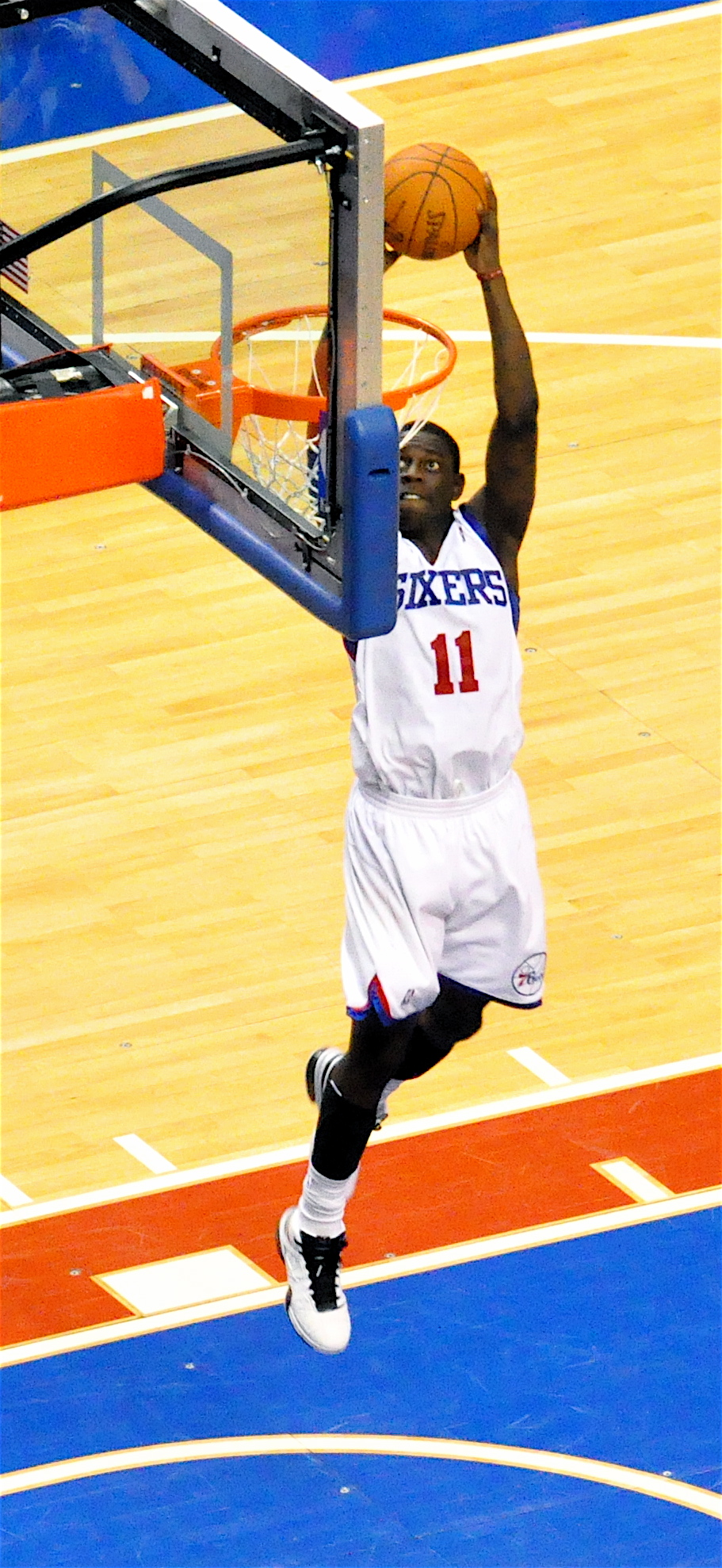 Jrue Holiday of the Philadelphia 76ers dunking against the Golden State Warriors at the Wachovia Center.